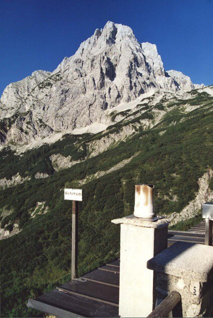 Spitzmauer from chalet Prielschutzhaus